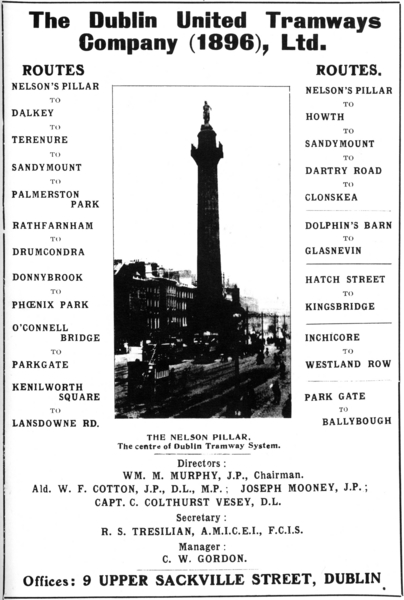 DUTC advert, c. 1910